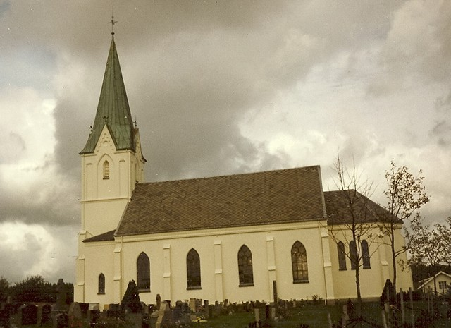 Asak church